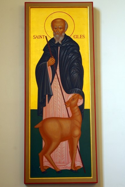 Icon of St Giles The icon, installed in the church of St Mary & St Giles in July 2009, was painted by Brother Leon of the Orthodox community in Walsingham and shows Giles, the hermit of Provence, shielding his companion hind from the onslaughts of royal archers.